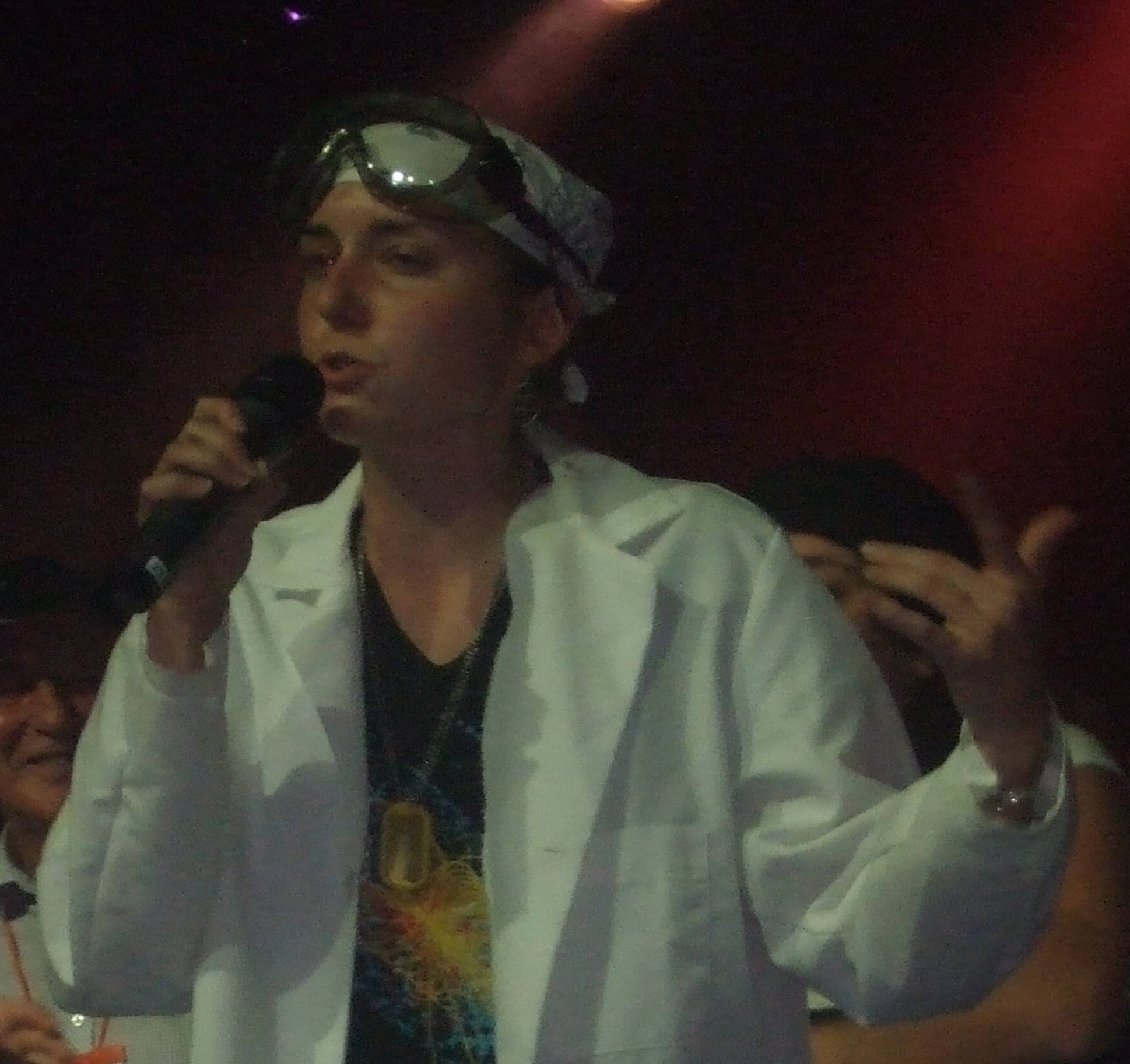 Katherine McAlpine performing her Large Hadron Rap as part of the inaguration festivities for the Large Hadron Collider on October 21, 2008